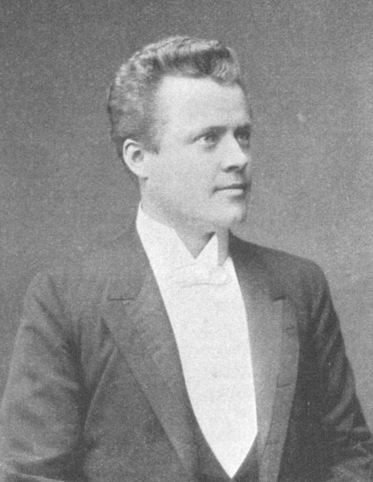 Photograph of Fritz Schrödter (1855-1924), German opera and operetta singer